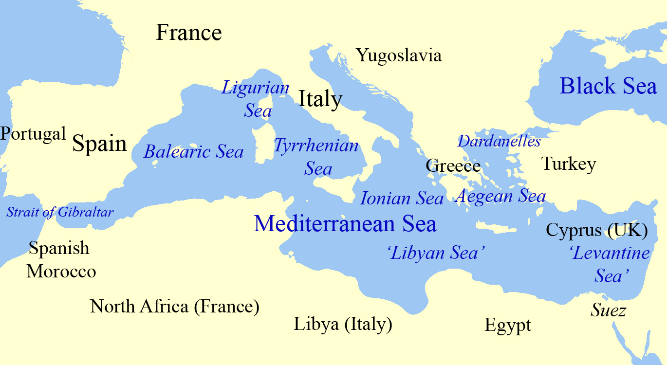 Map of the Mediterranean Sea and subdivisions. Marked are subdivisions according to the International Hydrographic Organization, and countries and other places relevant to the 1937 Nyon Conference.